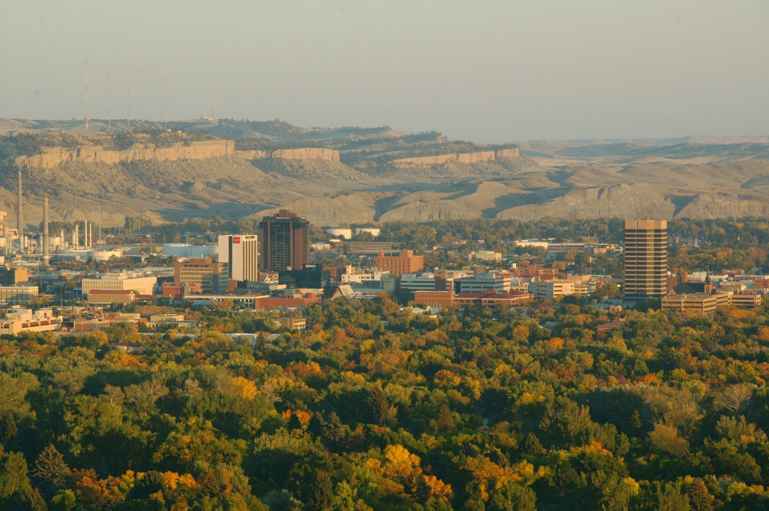 Billings, MT skyline as seen from the Rimrocks. Photo by David Michael Pennington.